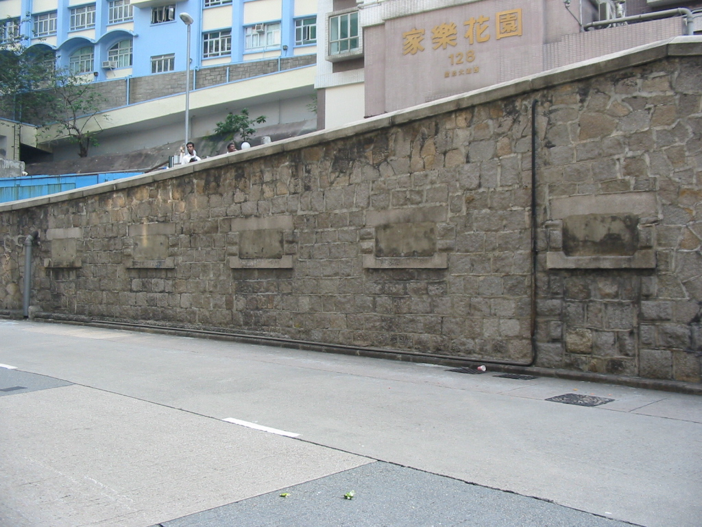 Remains of an abandoned toilet under "Bird Bridge", Queen's Road West